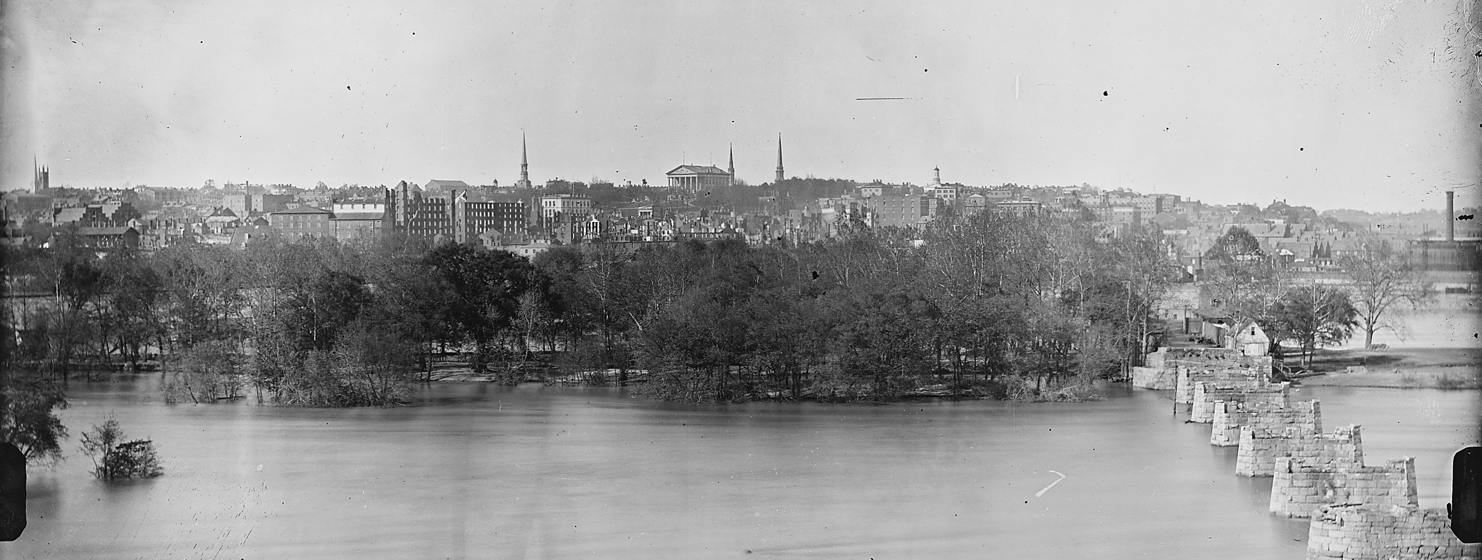 Panorama of Richmond, Virginia skyline following the Evacuation Fire of 1865